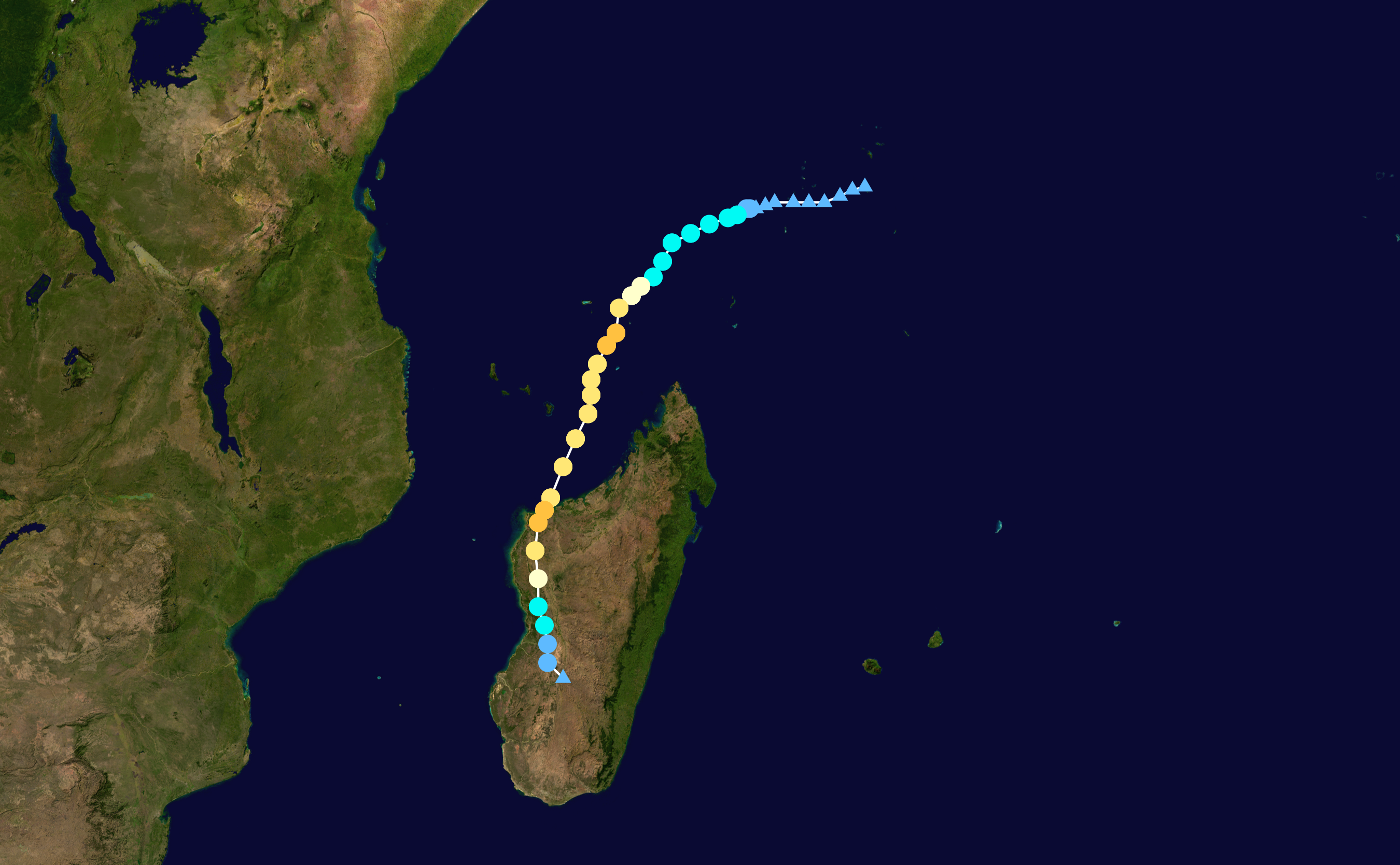 Track map of Tropical Cyclone Belna of the 2019-20 South-West Indian Ocean cyclone season. The points show the location of the storm at 6-hour intervals. The colour represents the storm's maximum sustained wind speeds as classified in the Saffir–Simpson scale (see below), and the shape of the data points represent the nature of the storm, according to the legend below. Saffir–Simpson scale Tropical depression≤38 mph≤62 km/h Category 3111–129 mph178–208 km/h Tropical storm39–73 mph63–118 km/h Category 4130–156 mph209–251 km/h Category 174–95 mph119–153 km/h Category 5≥157 mph≥252 km/h Category 296–110 mph154–177 km/h Unknown Storm type Tropical cyclone Subtropical cyclone Extratropical cyclone / Remnant low / Tropical disturbance / Monsoon depression